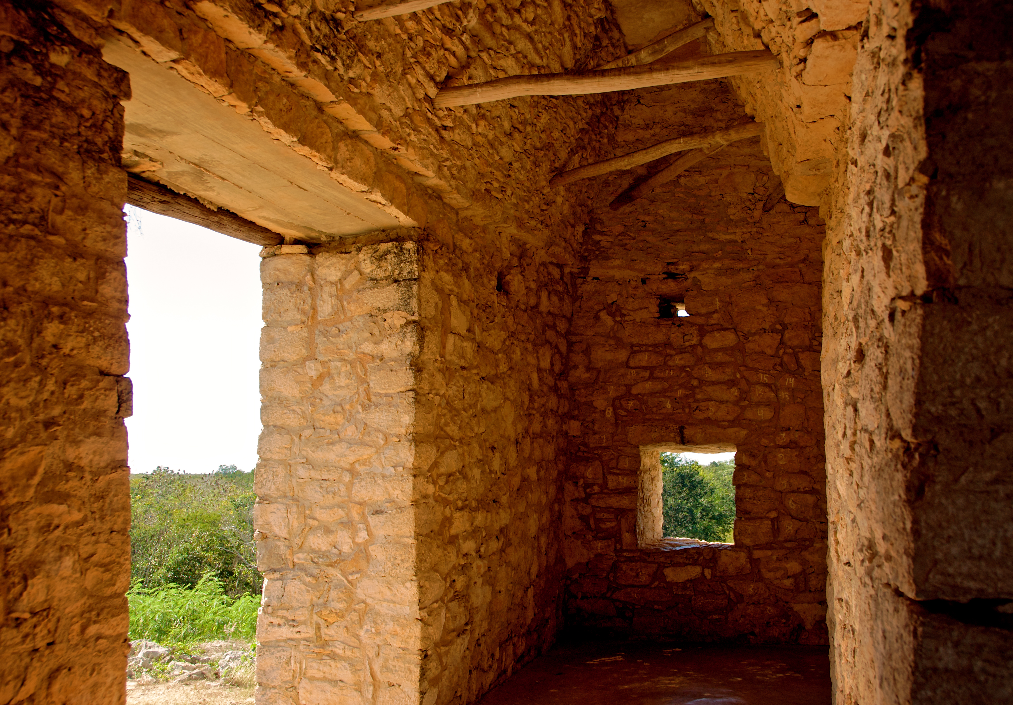 Interior of the Temple of the Seven Dolls at Dzibilchaltún in Yucatán, Mexico.